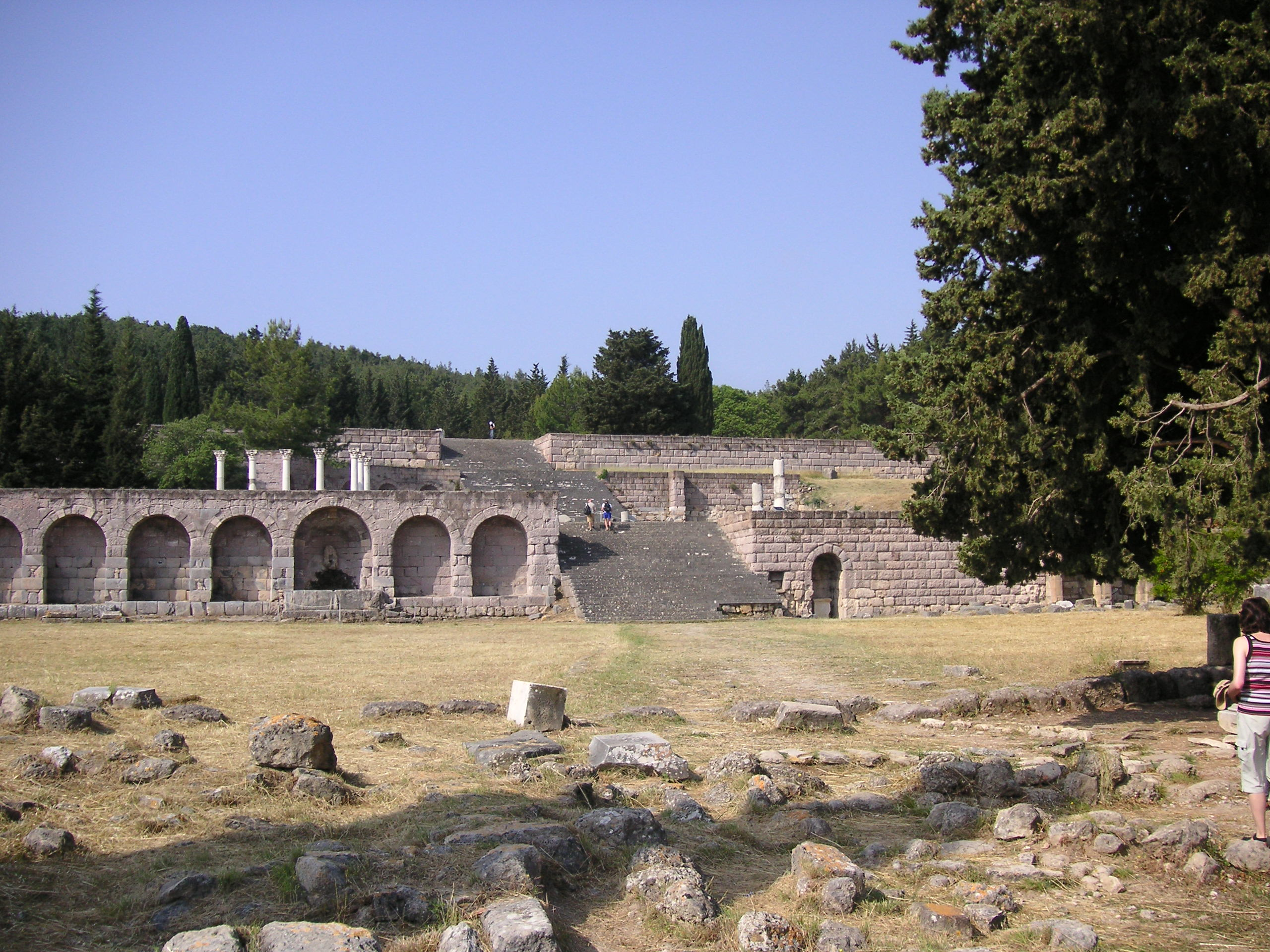 Kos island, Asklepieon